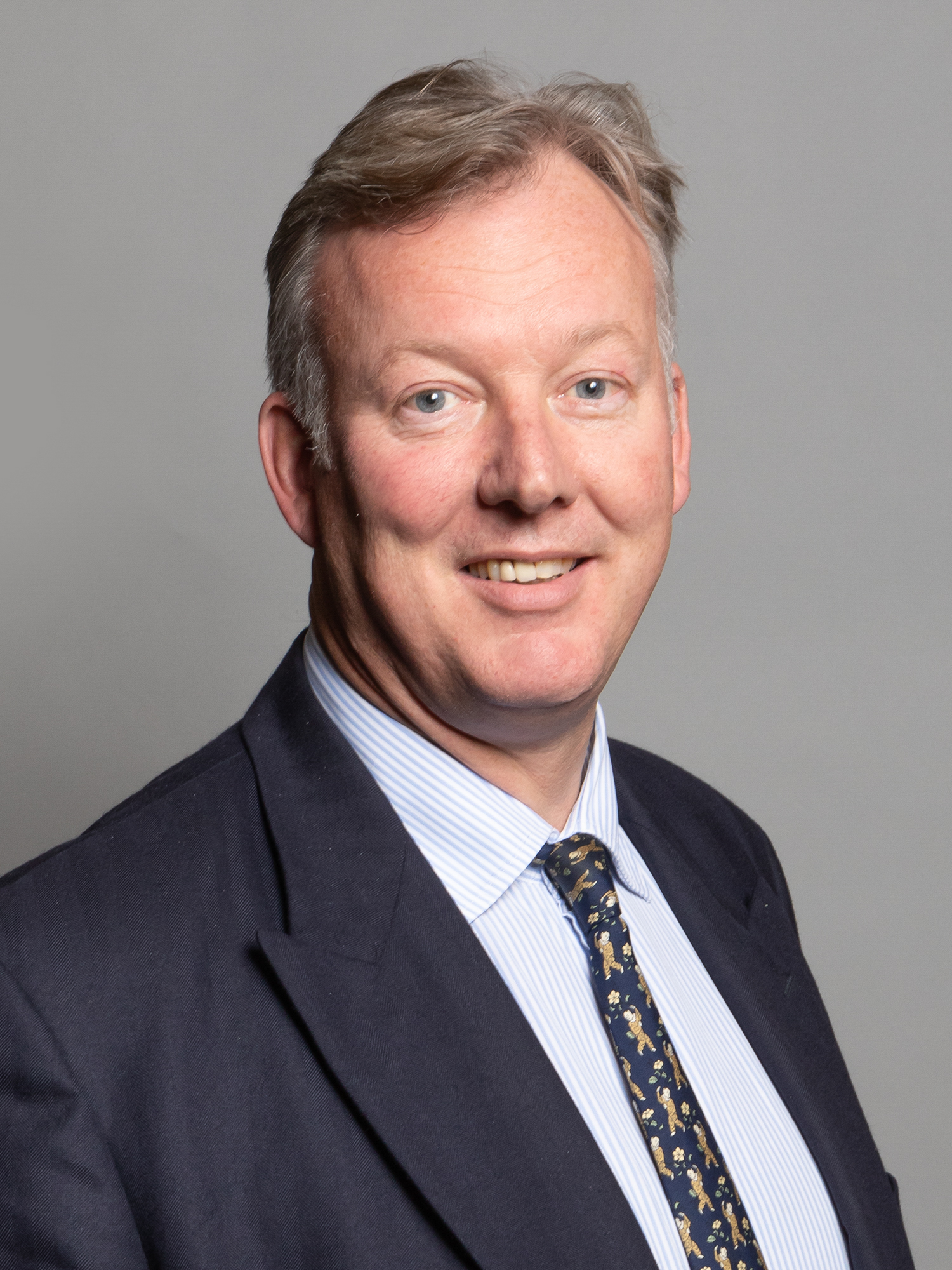 Official portrait of Bill Wiggin MP 3×4 portrait of Bill Wiggin